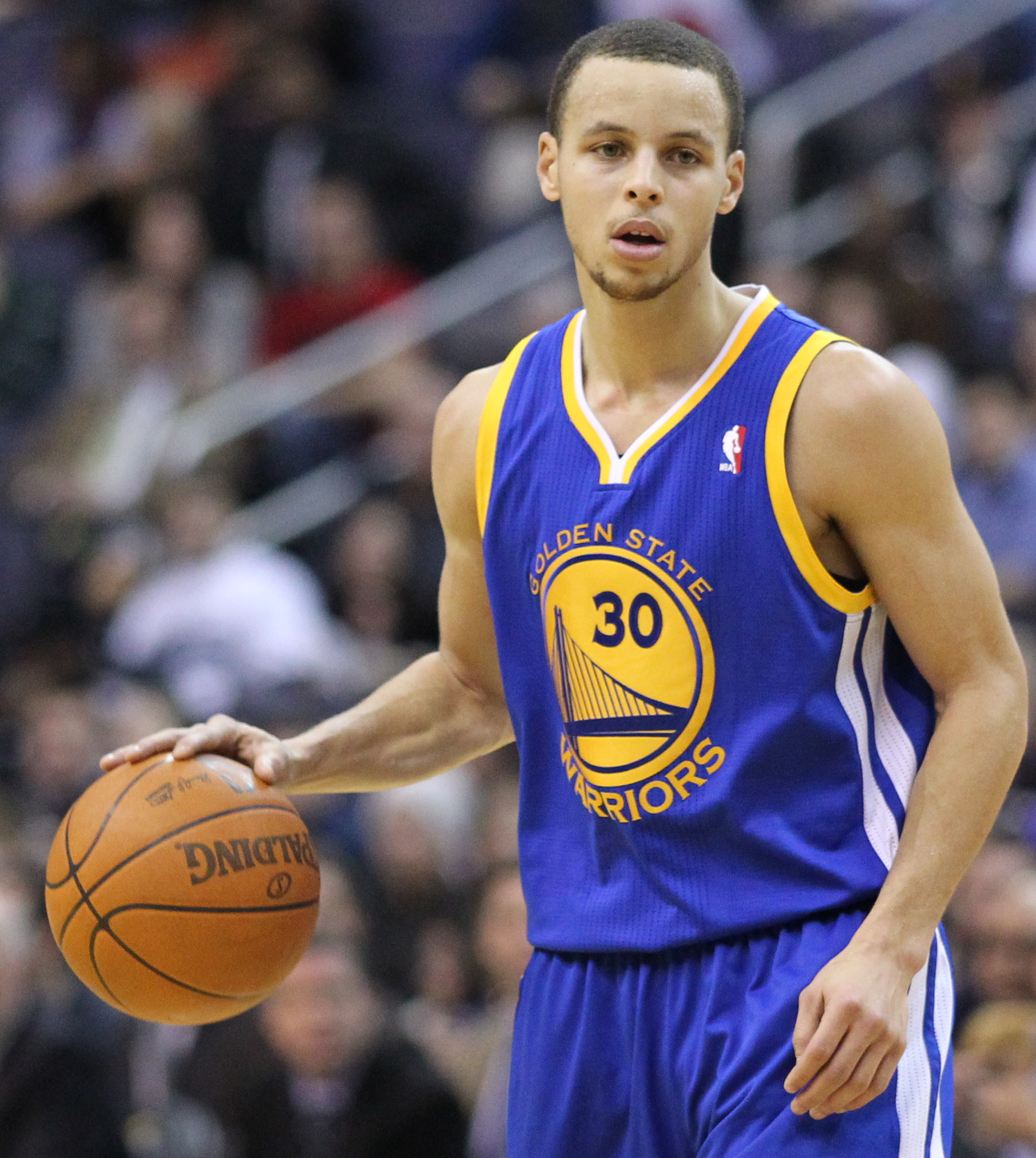 Wizards v/s Warriors 03/02/11